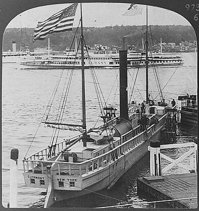 Clermont (replica steamboat), with large steamer Albany in background, at Hudson-Fulton Exhibition, 1909.